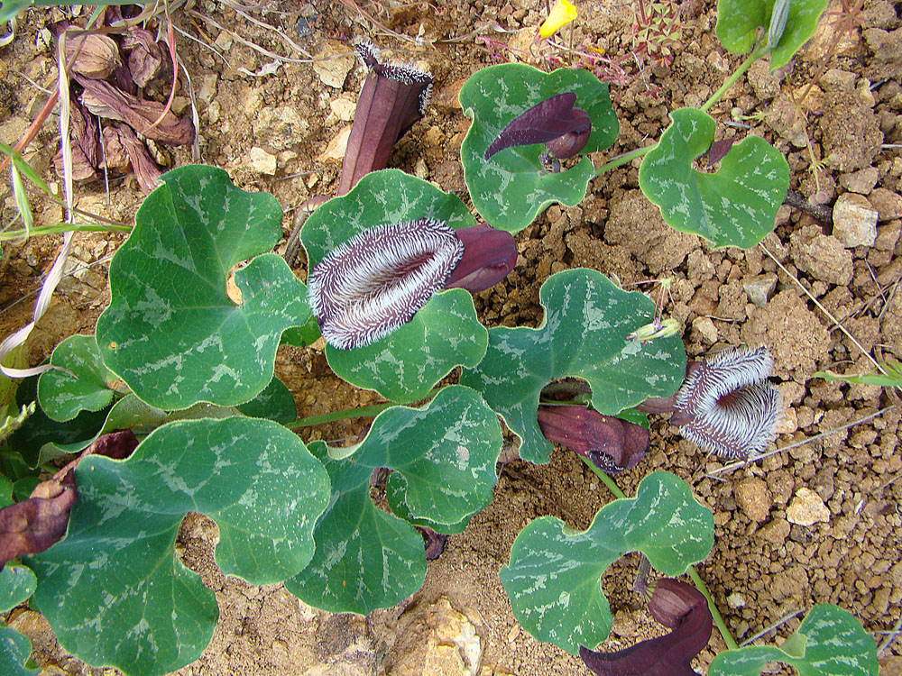 The foul smelling Oreja del Zorro vine. Traps, but does not consume, insects. In context at